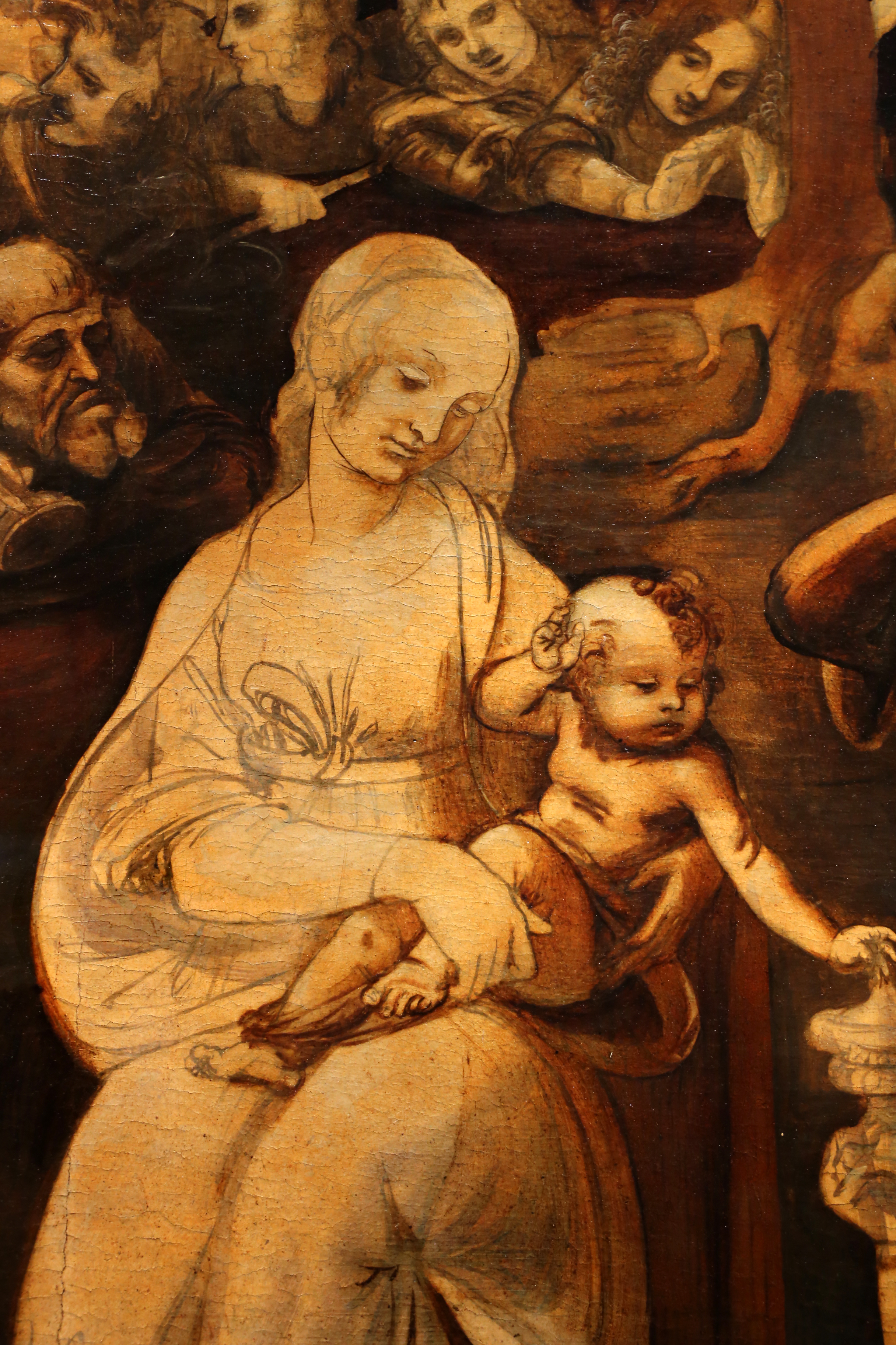 Adoration of the Magi by Leonardo da Vinci